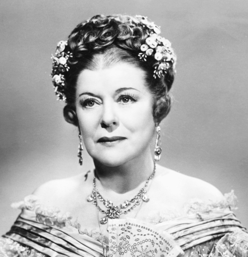 Publicity photo of Mary Boland